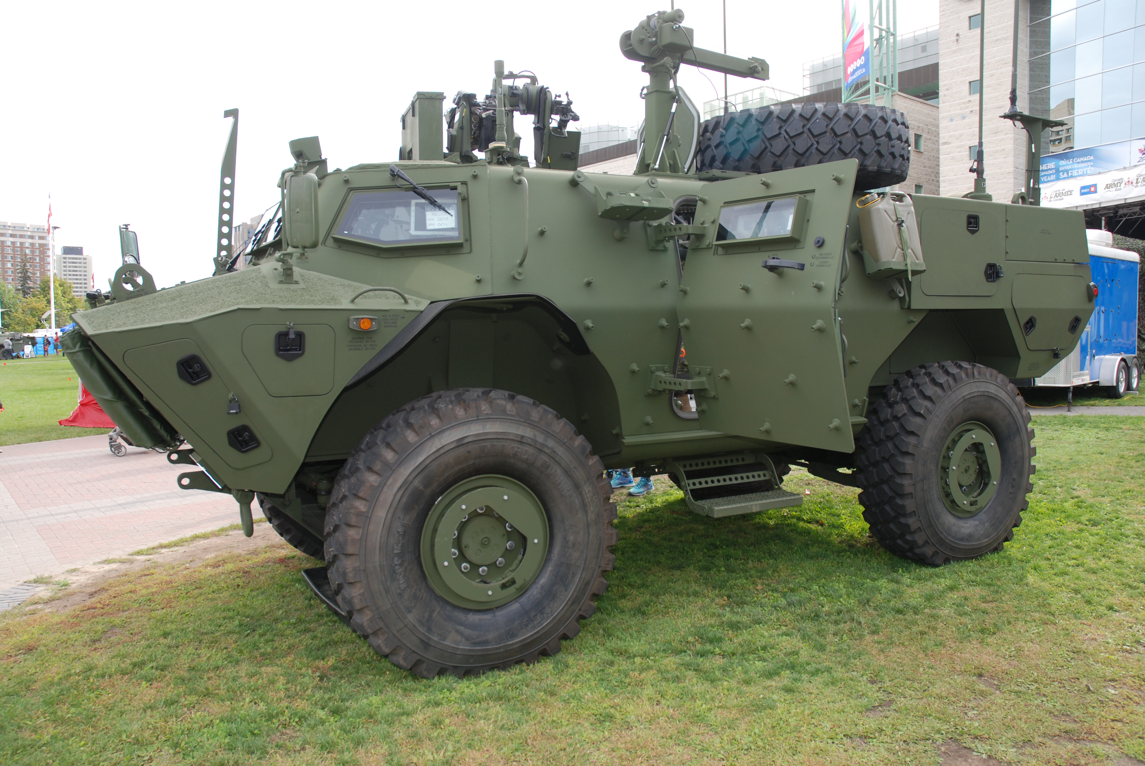 Textron Tactical Armoured Patrol Vehicle at Ottawa City Hall, Left View